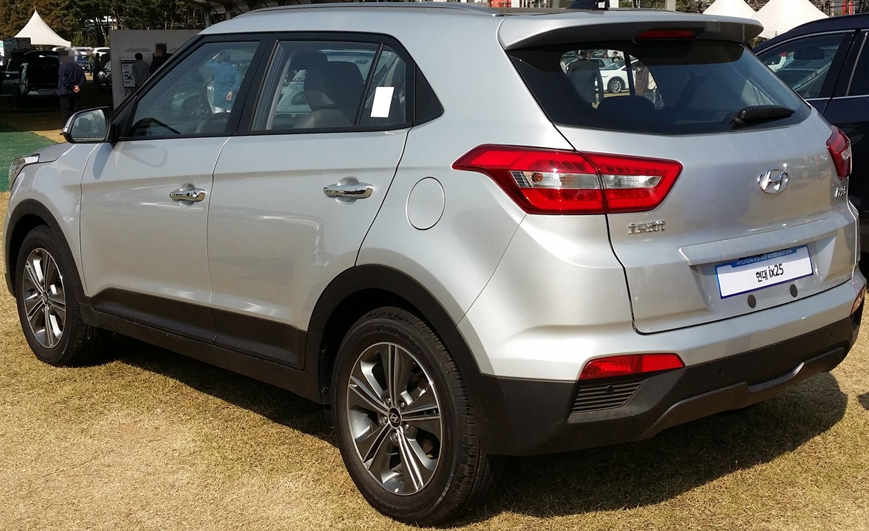 Hyundai ix25